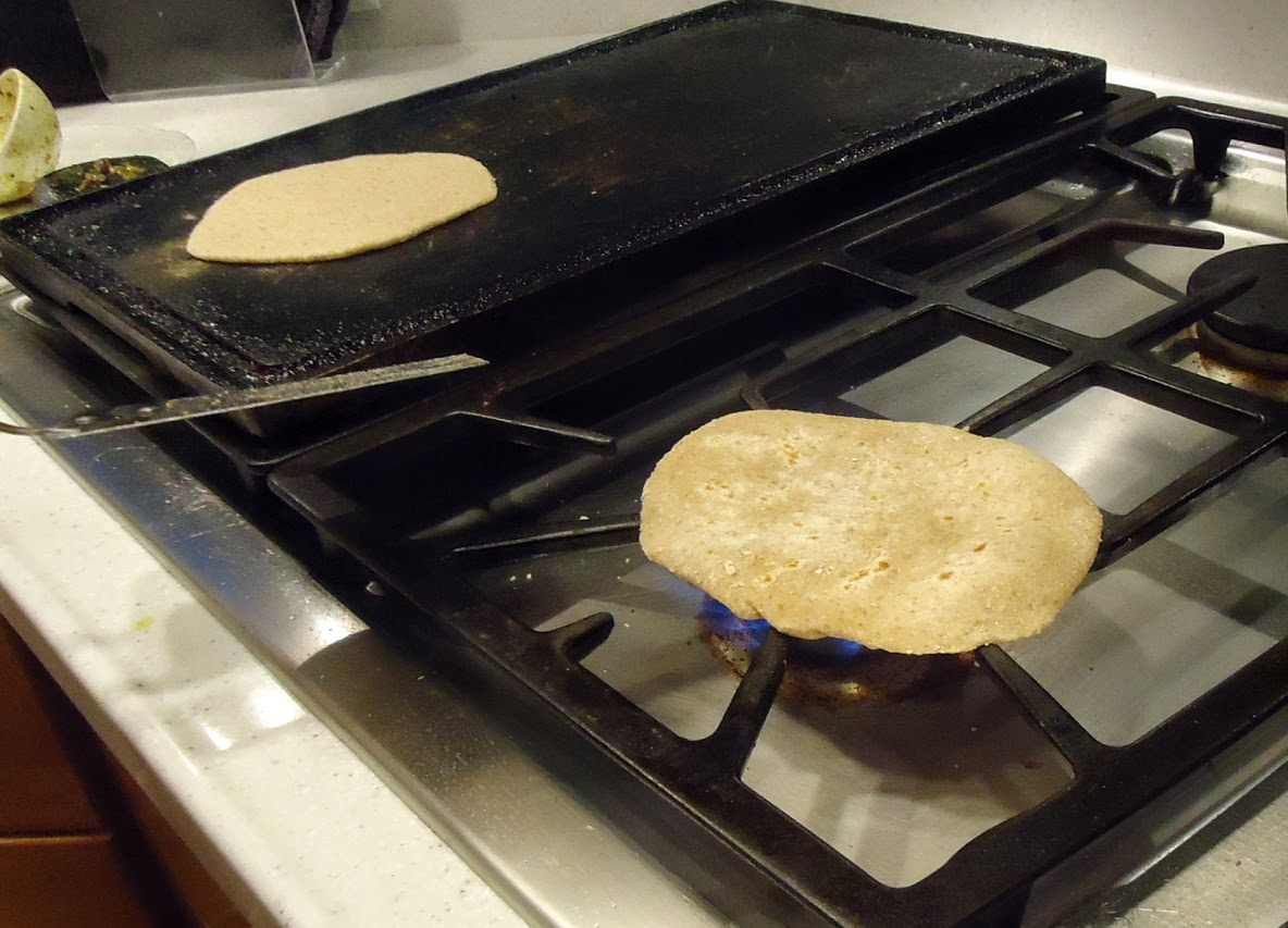 Cooking a chapati (sp) on an open flame.